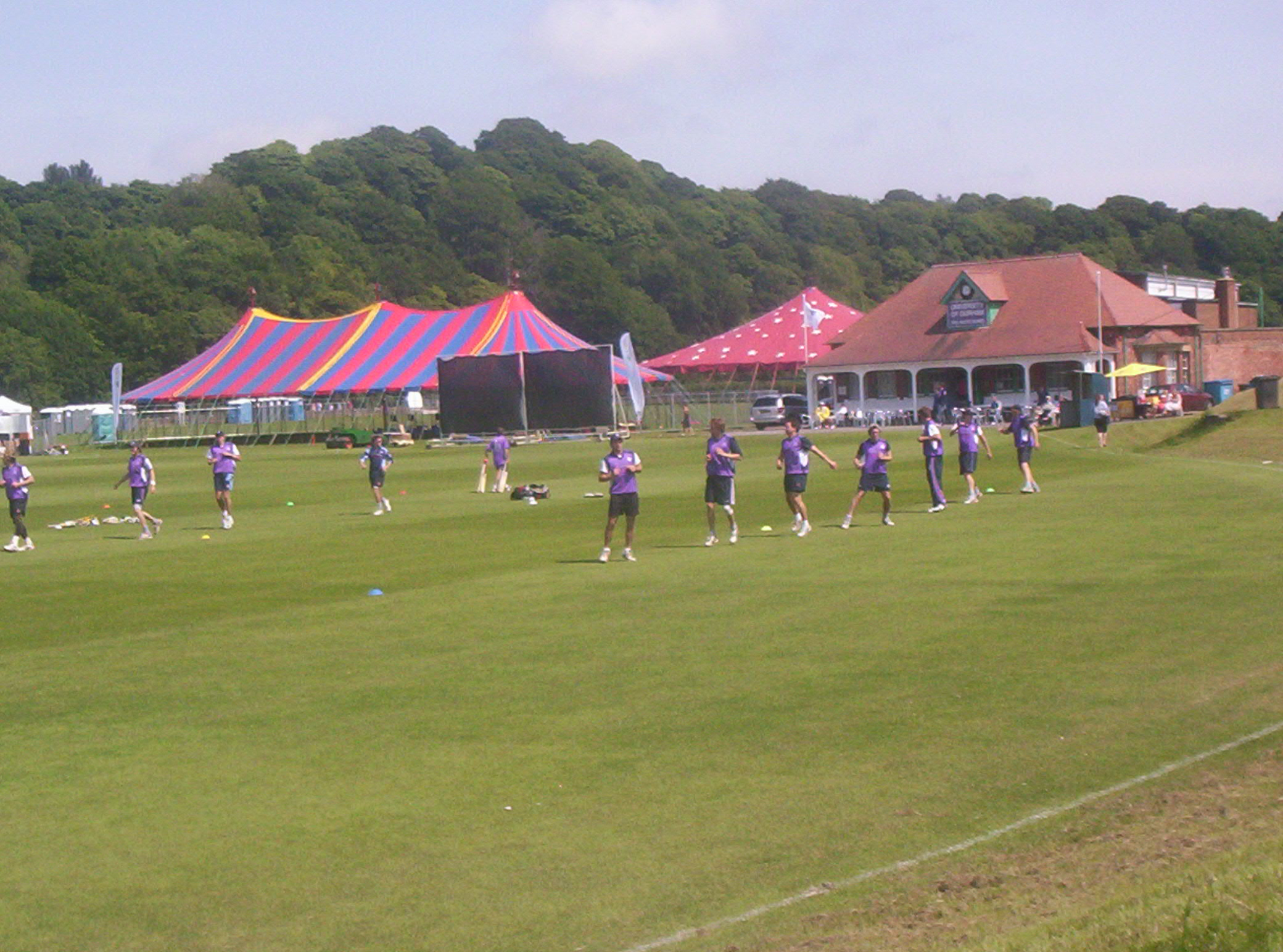 Durham University Racecourse 2008 20-20 match between Durham and Northumbria